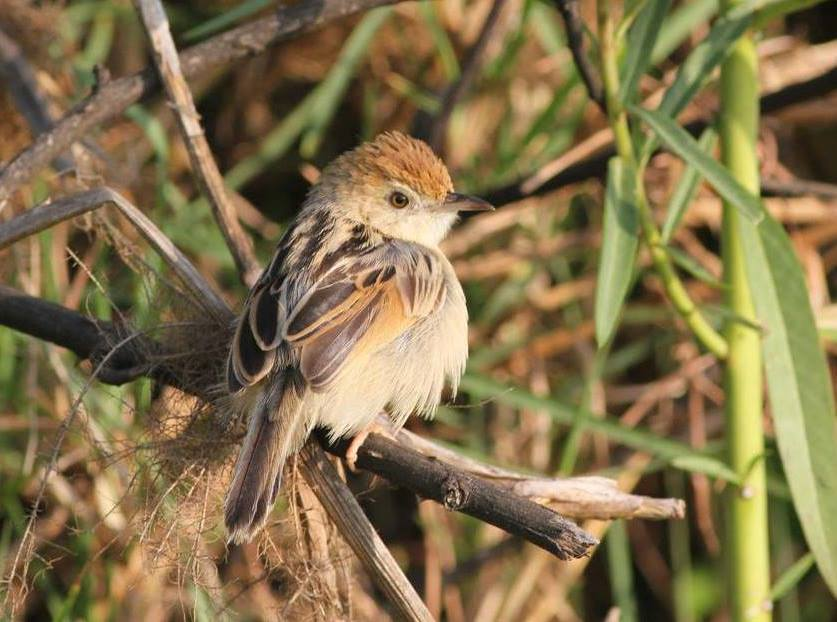 Red-winged cisticola on the Pungwe floodplain in Sofala province, central Mozambique. Race C. g. isodactylus retains the greyish back plumage during the non-breeding season, as opposed to the nominate race in the south.